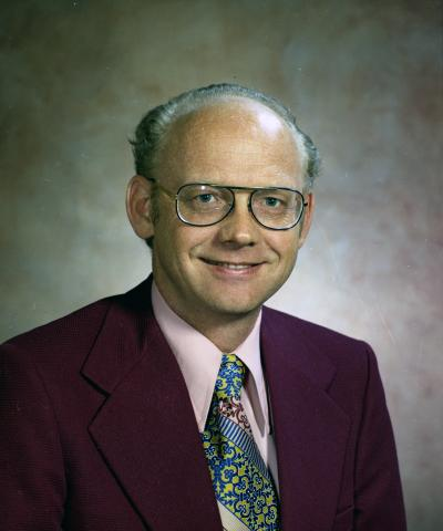 Representative Donald G. Hansey, 1973